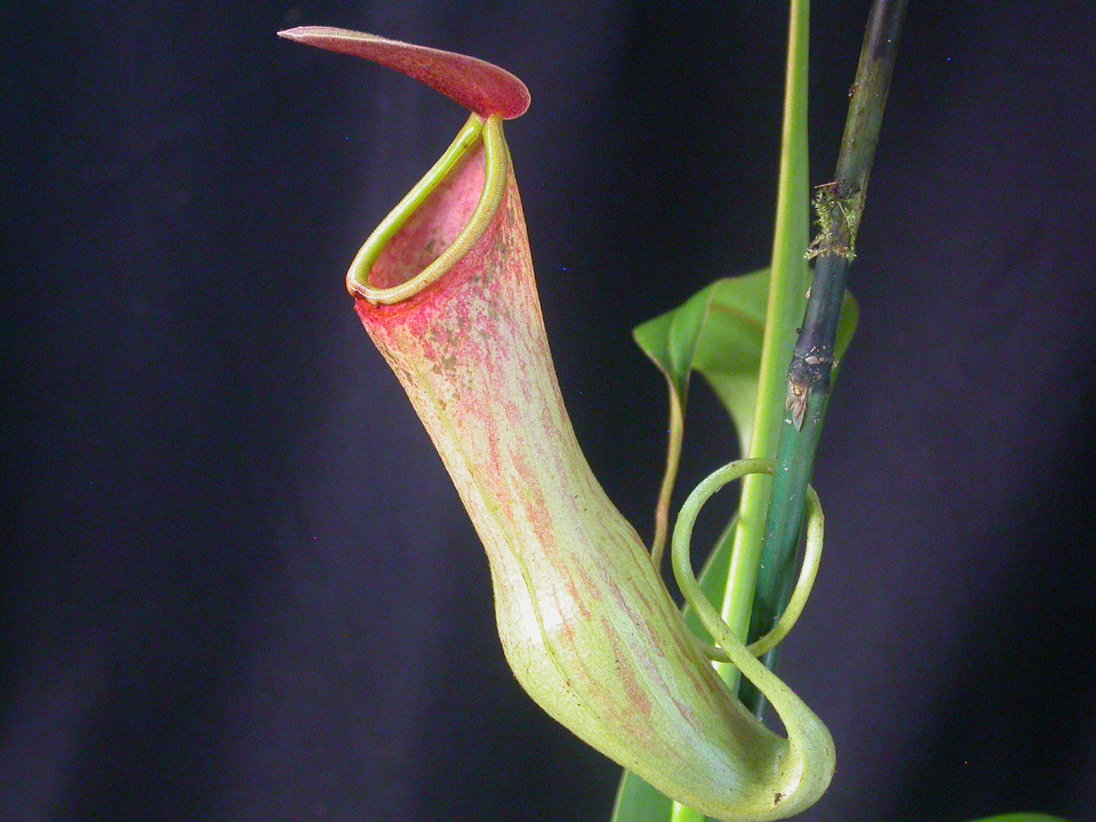 Here is a photo of my cultivated N. khasiana. -Jeremiah